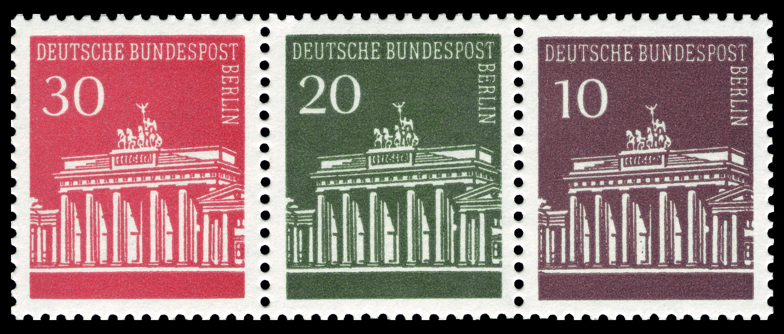 Printing of 3 different stamps in a single sheet, series Brandenburg Gate